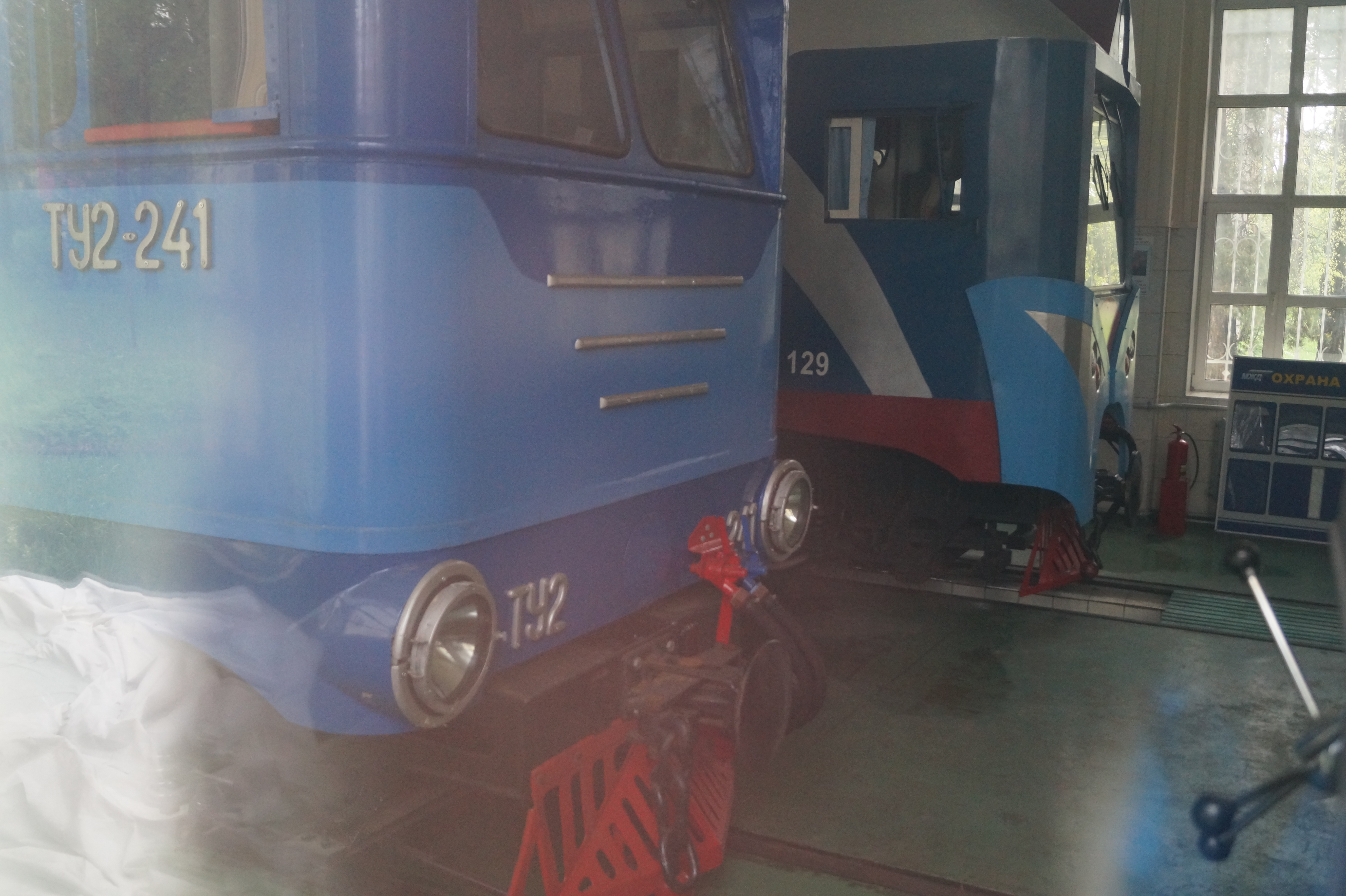 TU2-129 and TU2-241 at Kratovo children railway This image is blurry. It might therefore qualify for deletion if an identical image of better quality is provided. Some pictures are blurred intentionally; those should not be deleted but placed in Category:Intentionally blurred images.